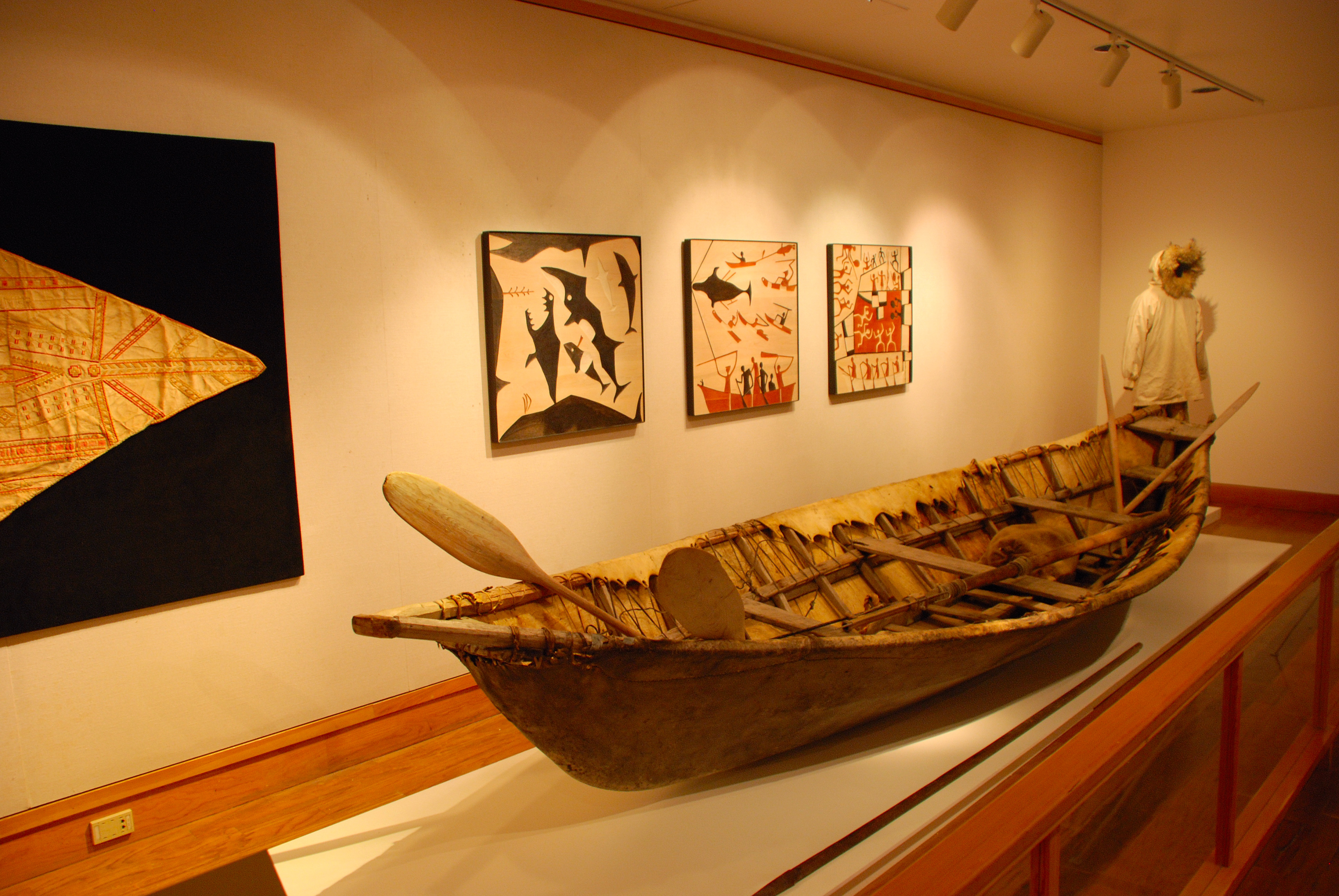 Photo of an Umiak in an installation at the Anchorage Museum of Art, taken on Saturday May 26, 2007 by George Chacon.